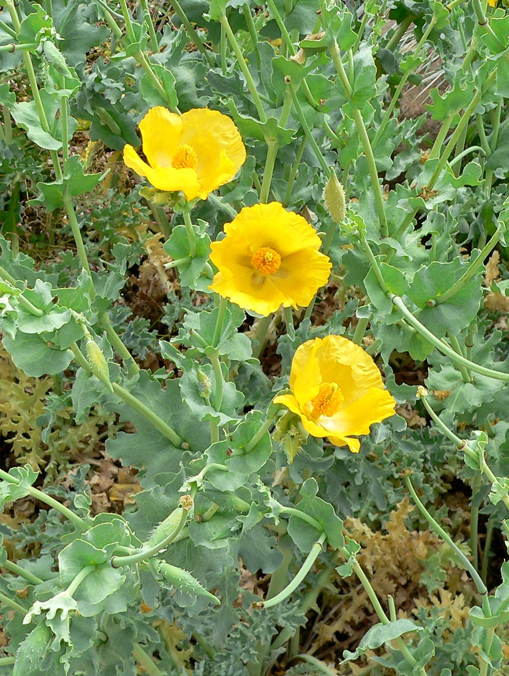 The yellow hornpoppy or yellow horned poppy (Glaucium flavum var. flavum) at the University of California Botanical Garden in Berkeley, California.